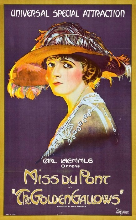 promotional poster for the American silent film The Golden Gallows (1922) (cropped).